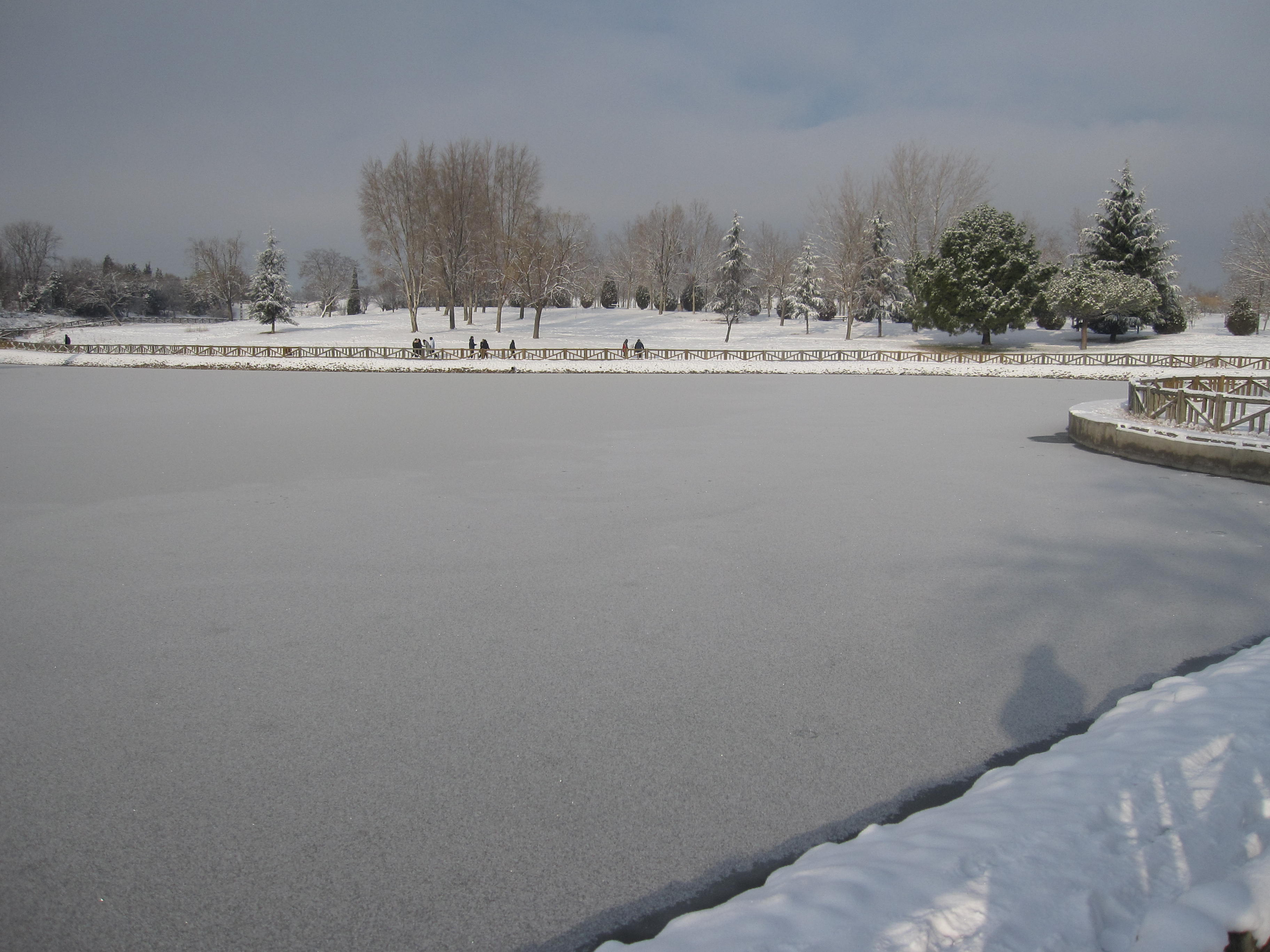 Park in the Sector 3 (Getafe), Community of Madrid, Spain.